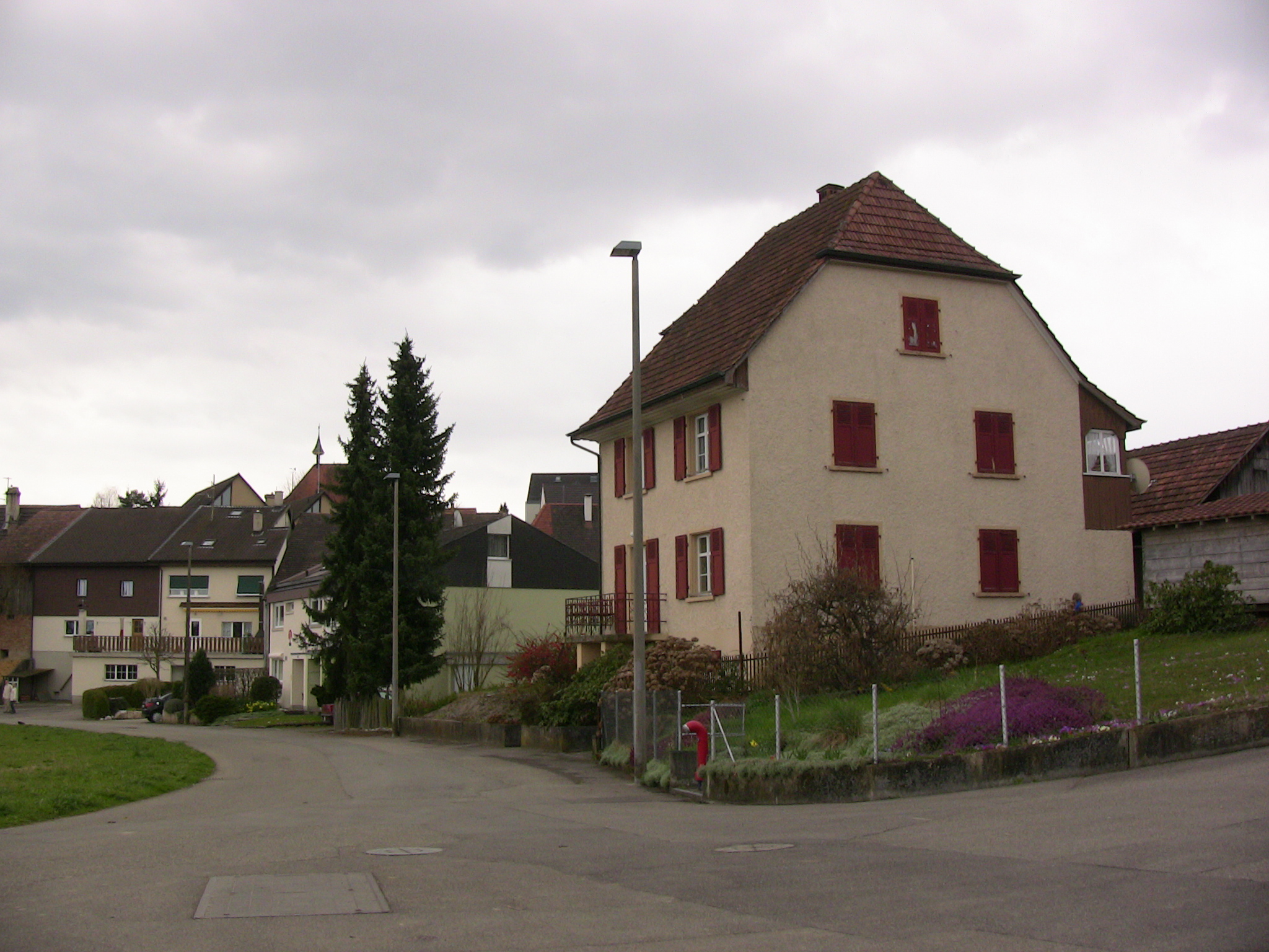 Schönenbuch municipality in Basel-Land, Switzerland